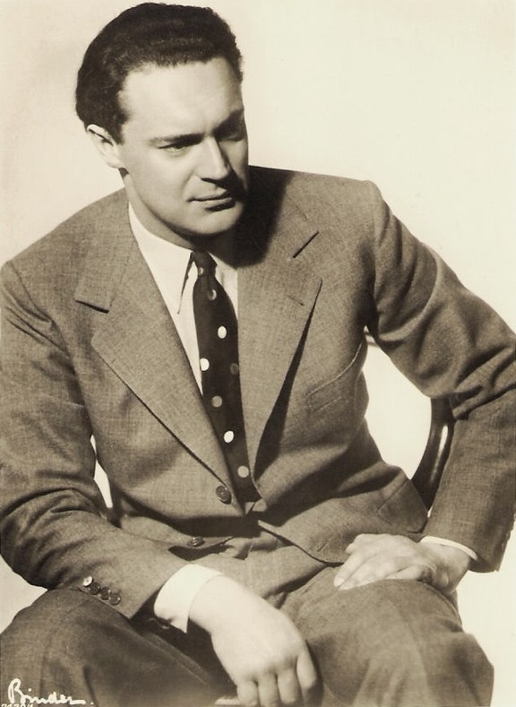 Portrait of Austrian actor Gustav Diessl (1899–1948) by Alexander Binder. Distributed by Ross-Verlag.